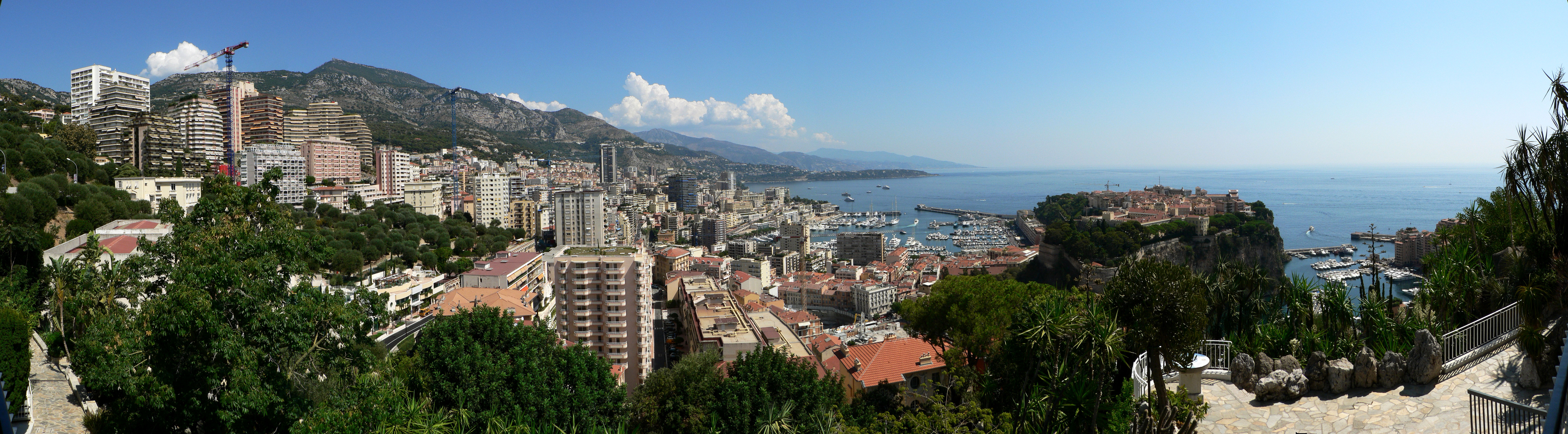 View from "Jardin Exotique" on the City with Monaco Ville and harbour.